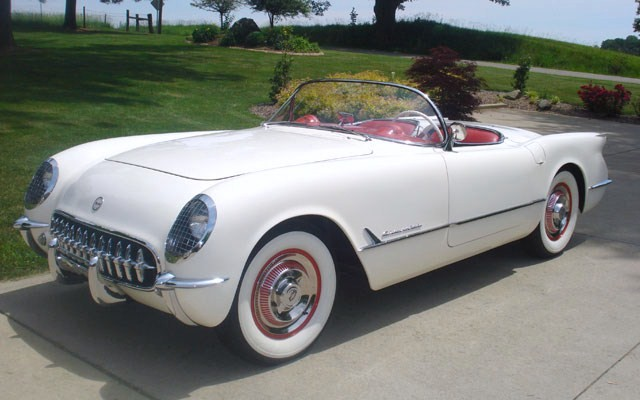 1953 Chevrolet Corvette Convertible